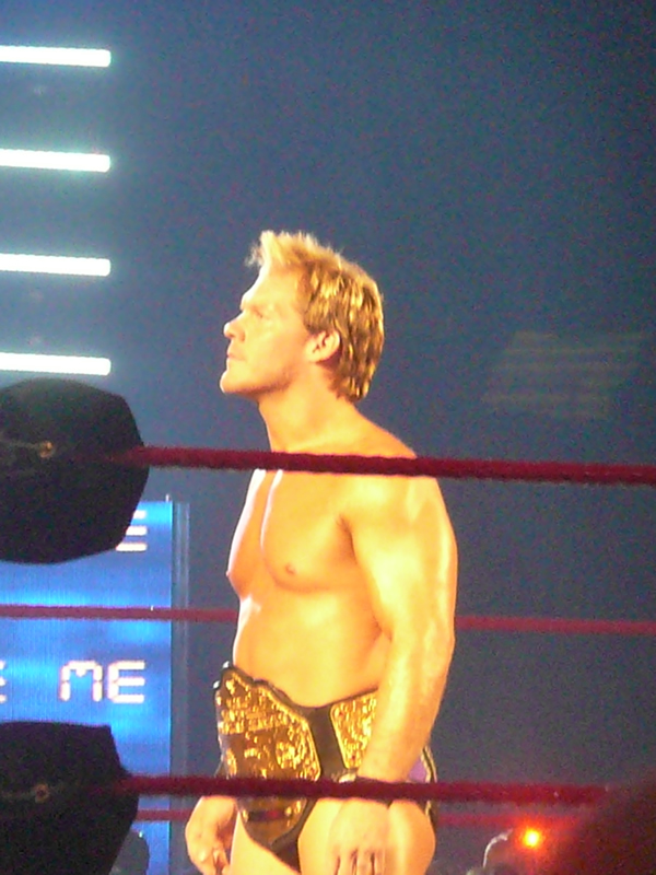 Taken at the Manchester Evening News arena, 10th November 2008 at the WWE Raw taping.